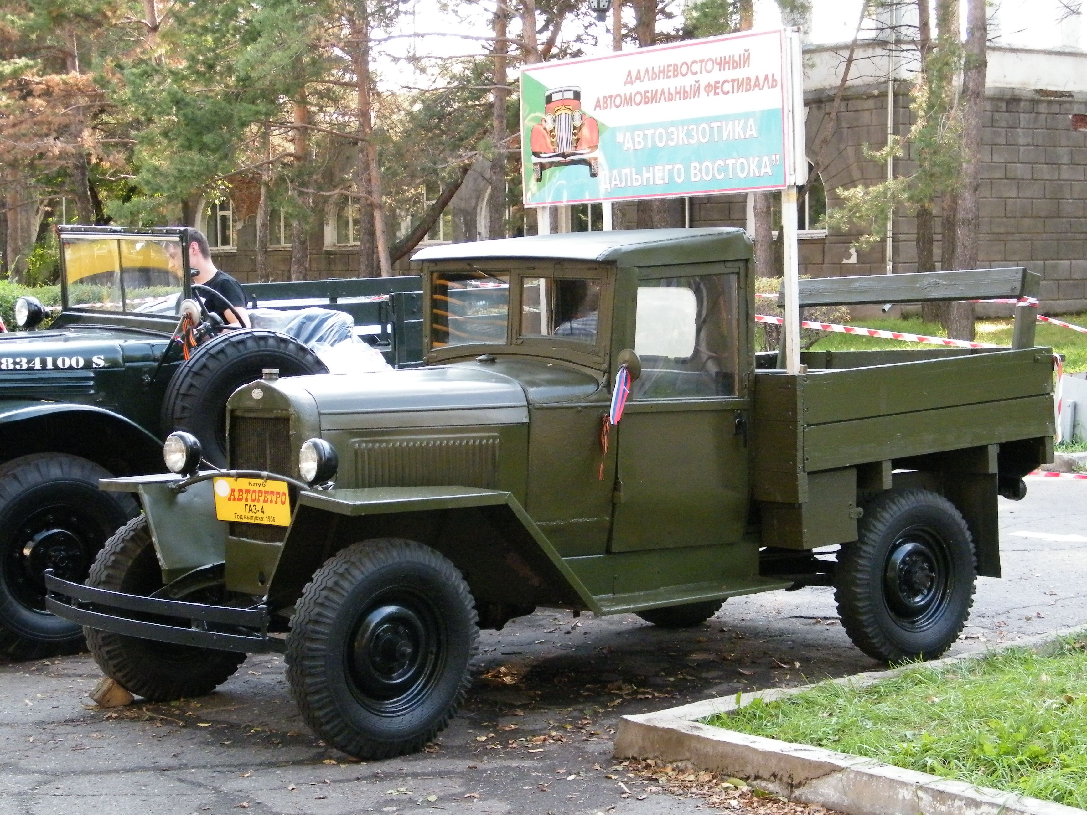 GAZ-4